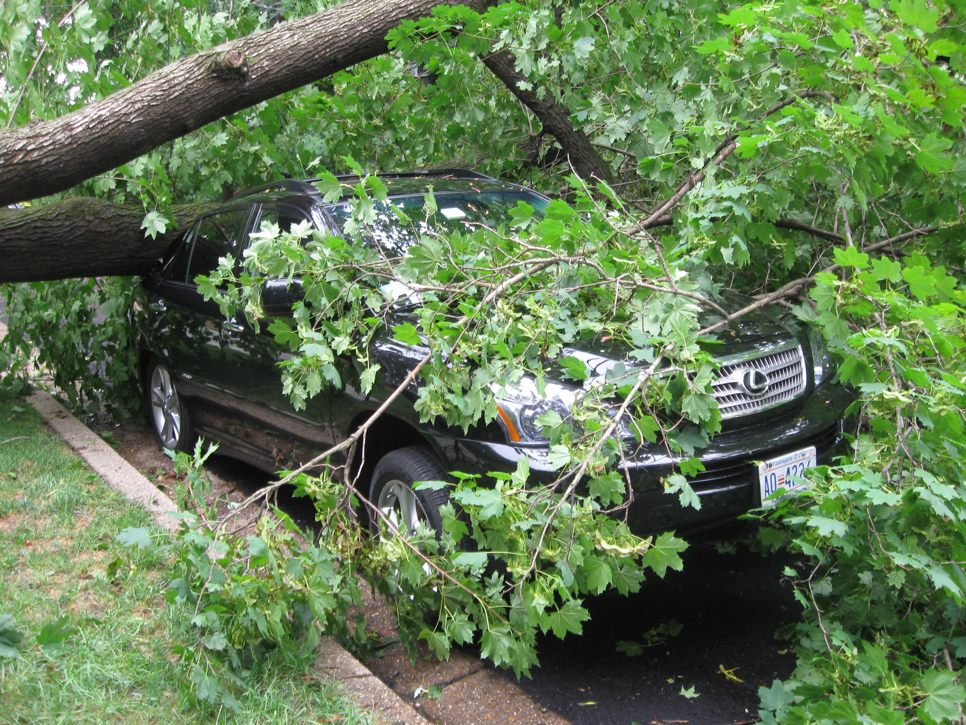 A Lexus RX400h damaged by a tree that fell during Hurricane Irene in Washington, D.C.